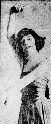 A white woman with short dark hair, in a dance pose, with one arm above her head and one across her front. She is wearing a sleeveless dress.